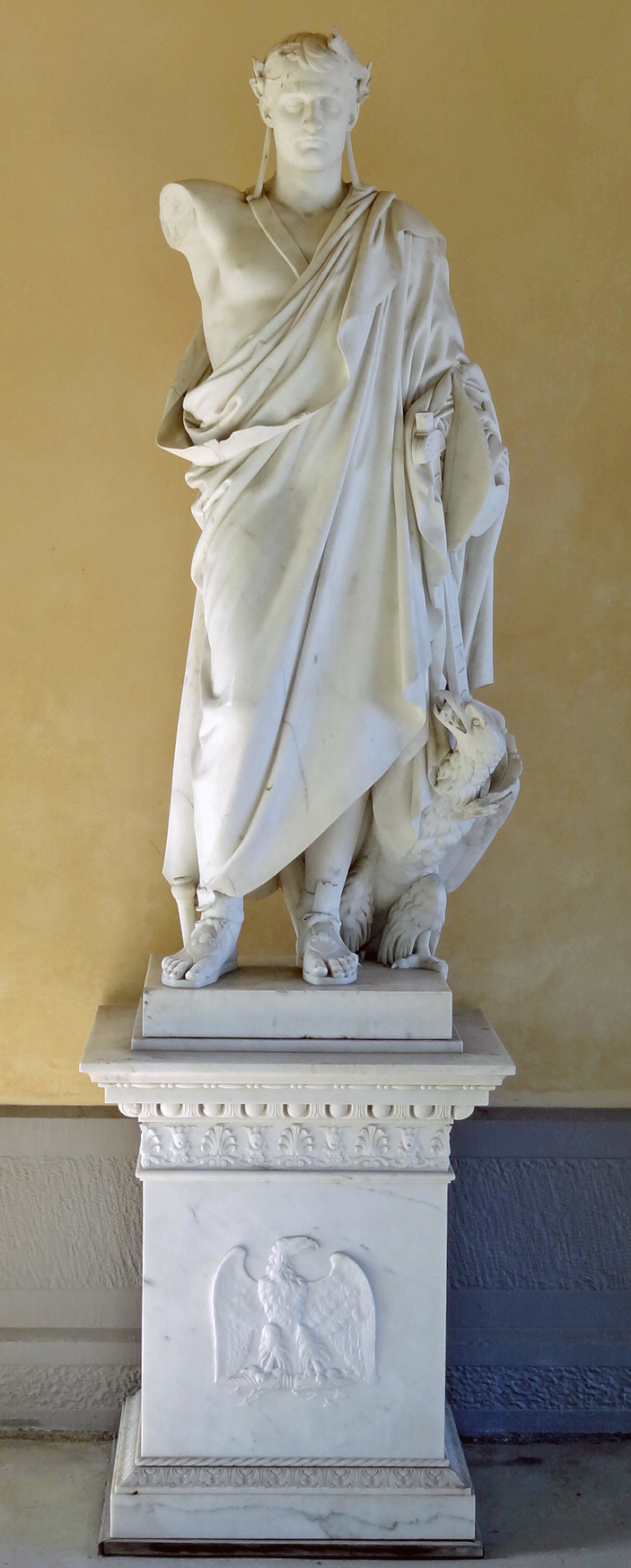 Statue of Napoleon I outside Arenenberg Castle, Switzerland